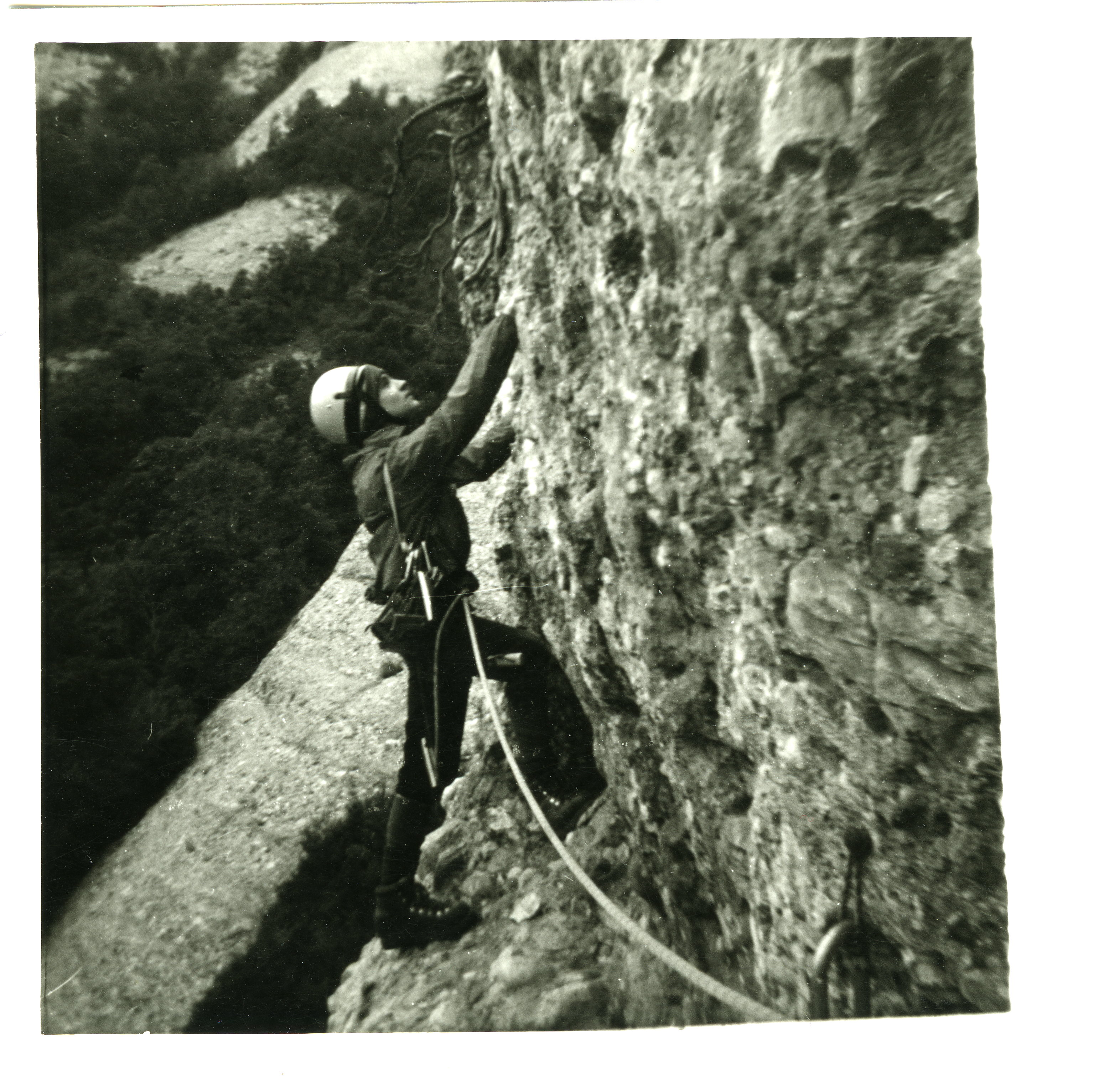 Climbing Trencabarrals, Montserrat, along the Normal route. 16 of November of 1975.